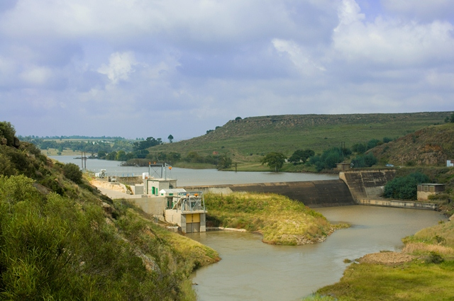 The Sol Plaatje Power station shown from the front